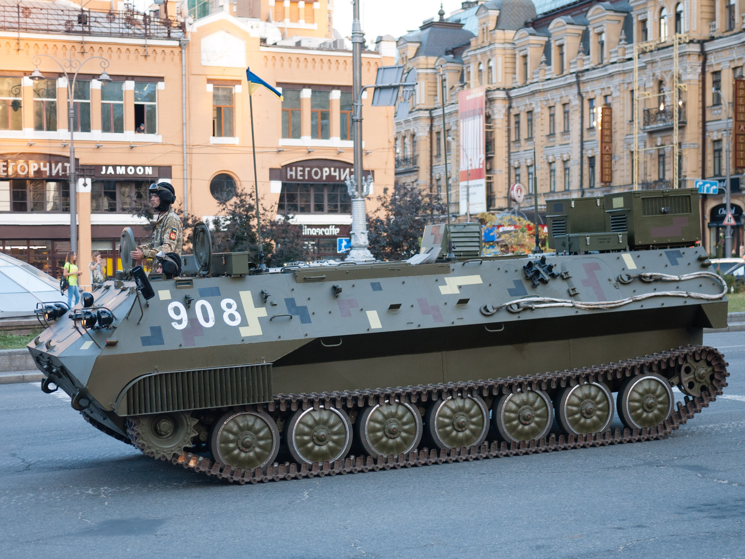 1AR1 Polozhennya-2 acoustic reconnaissance vehicle, rehearsal for the Independence Day military parade in Kyiv, 2018